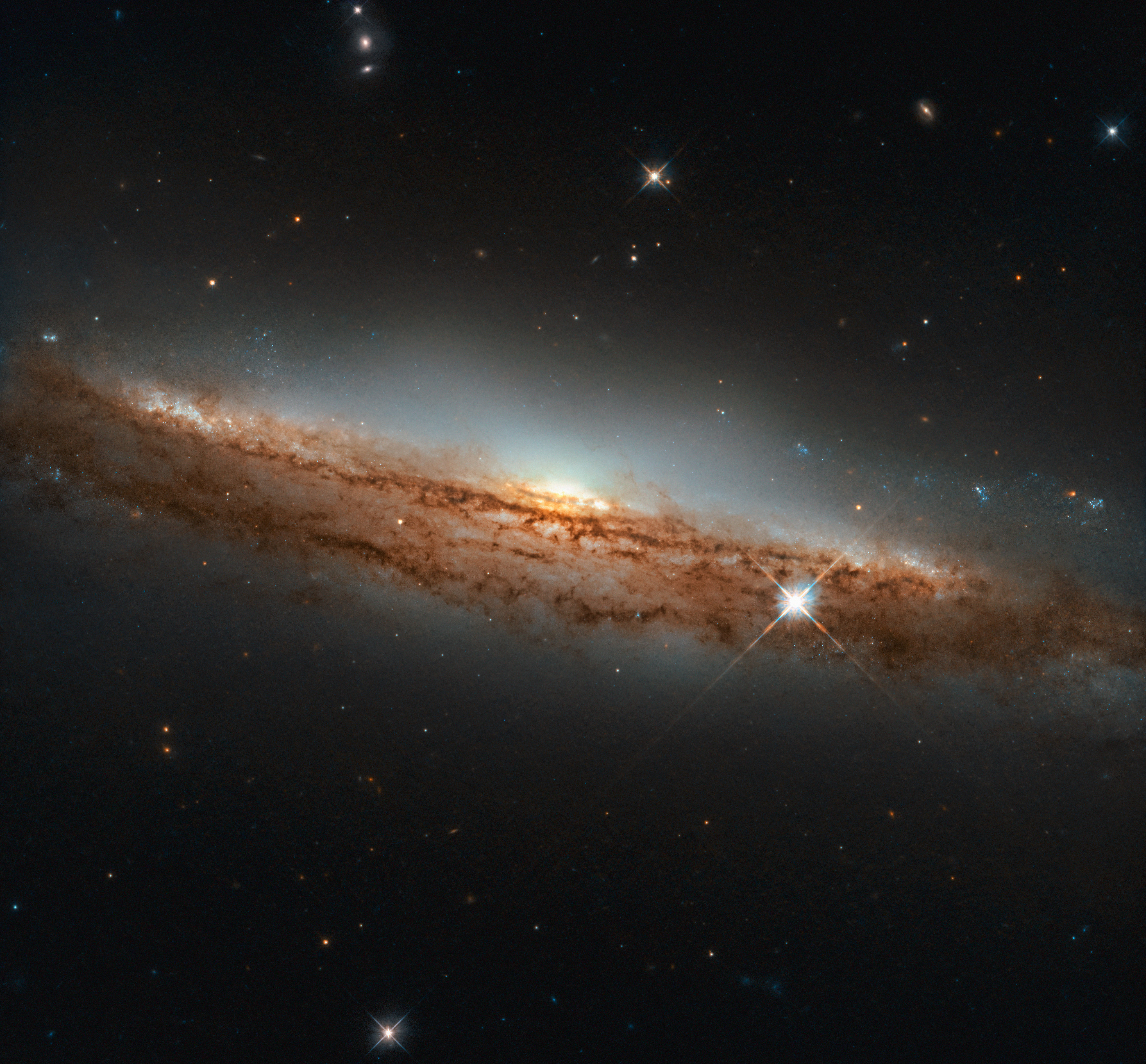 The NASA/ESA Hubble Space Telescope sees galaxies of all shapes, sizes, brightnesses, and orientations in the cosmos. Sometimes, the telescope gazes at a galaxy oriented sideways — as shown here. The spiral galaxy featured in this Picture of the Week is called NGC 3717, and it is located about 60 million light-years away in the constellation of Hydra (The Sea Serpent). Seeing a spiral almost in profile, as Hubble has here, can provide a vivid sense of its three-dimensional shape. Through most of their expanse, spiral galaxies are shaped like a thin pancake. At their cores, though, they have bright, spherical, star-filled bulges that extend above and below this disc, giving these galaxies a shape somewhat like that of a flying saucer when they are seen edgeon. NGC 3717 is not captured perfectly edge-on in this image; the nearer part of the galaxy is tilted ever so slightly down, and the far side tilted up. This angle affords a view across the disc and the central bulge (of which only one side is visible).